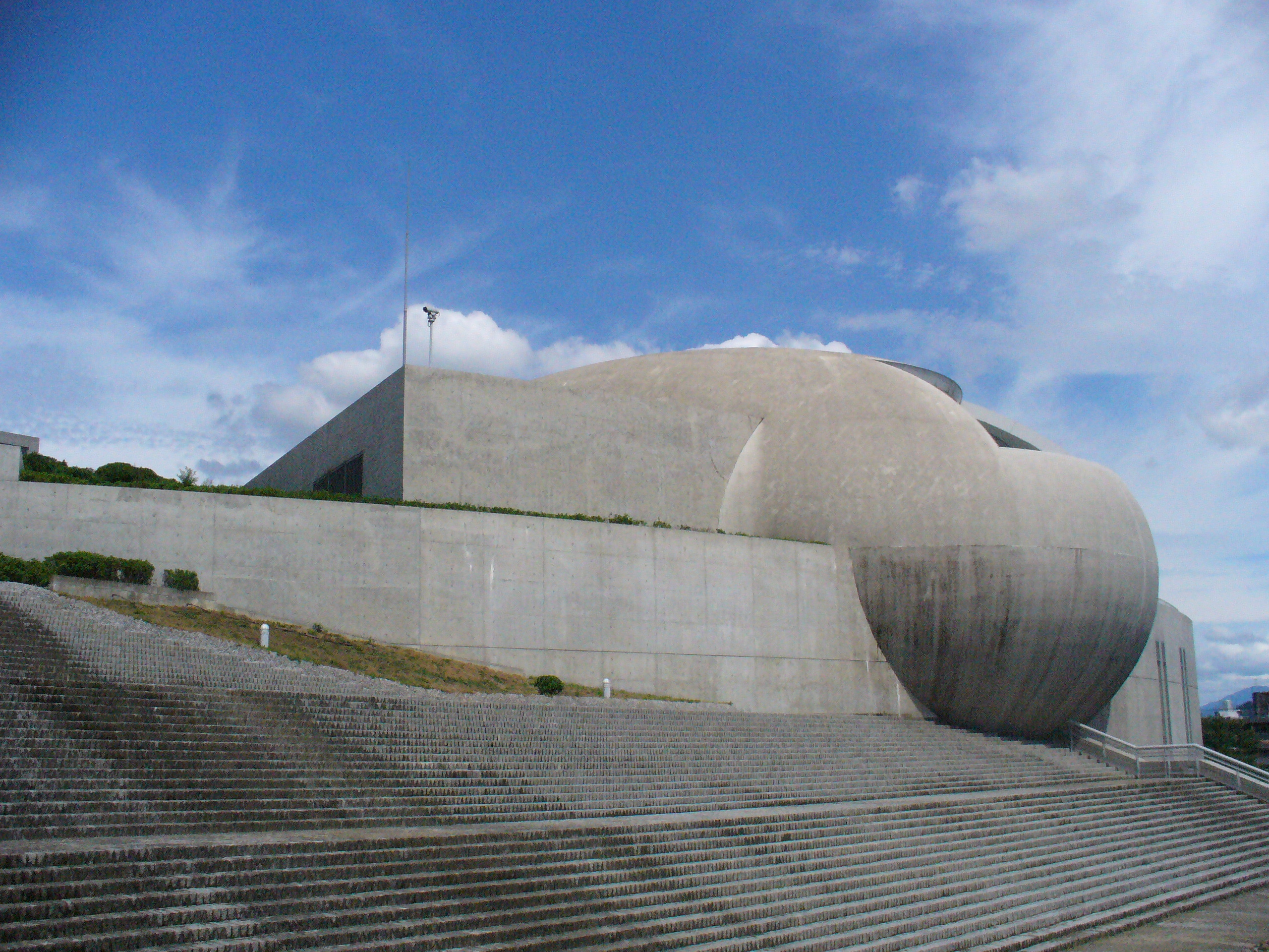 Nagaragawa Convention Center（長良川国際会議場）,Gifu,Gifu,Japan（岐阜県岐阜市）で撮影。